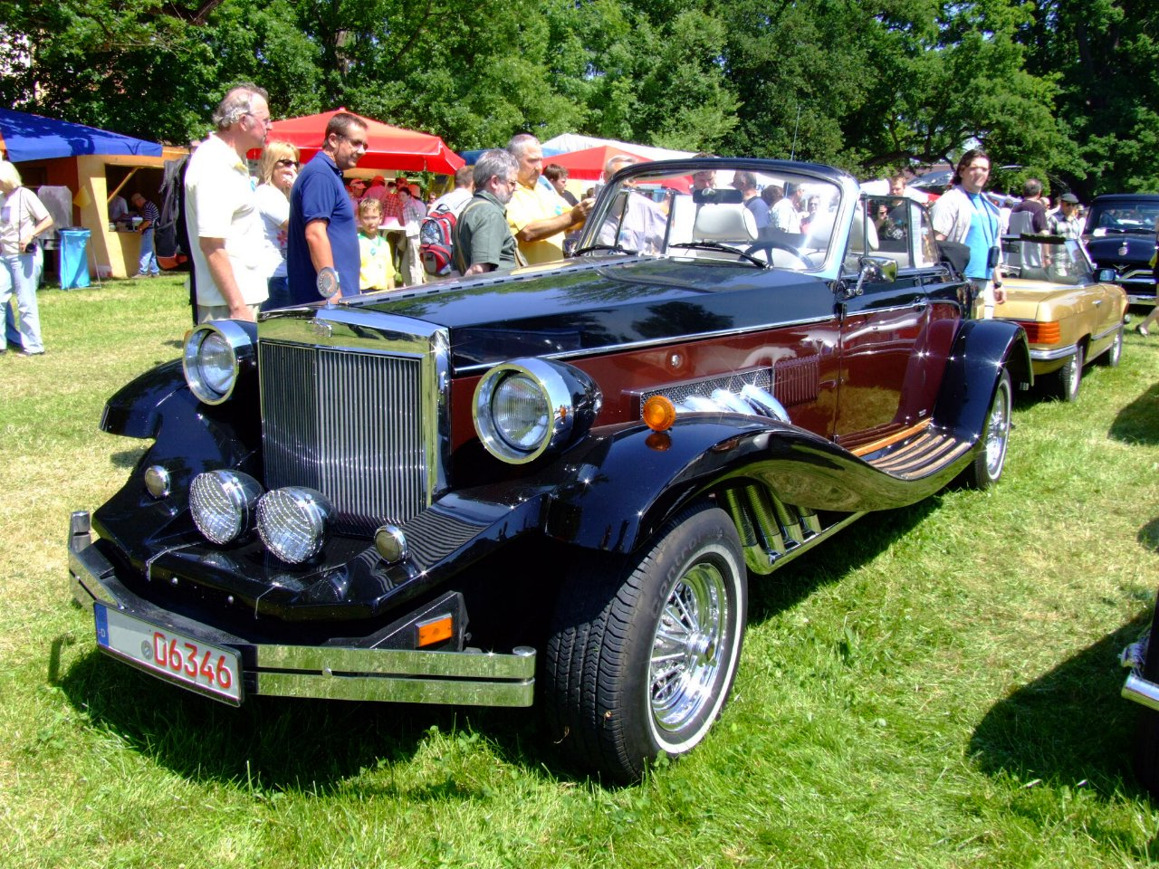 Summary Clenet (Serie 2) Ford V8 Engine 5730 ccm ca. 200 PS 185 Km/h 4-Gang-Overdrive-Automatic-Getriebe Leergewicht: ca.1850 kg Quelle: selbst fotografiert, 06/2006 Fotograf: Späth Chr. Licensing